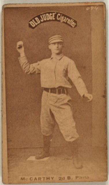 Tommy McCarthy on an 1887-90 Goodwin & Company baseball card (Old Judge (N172)).